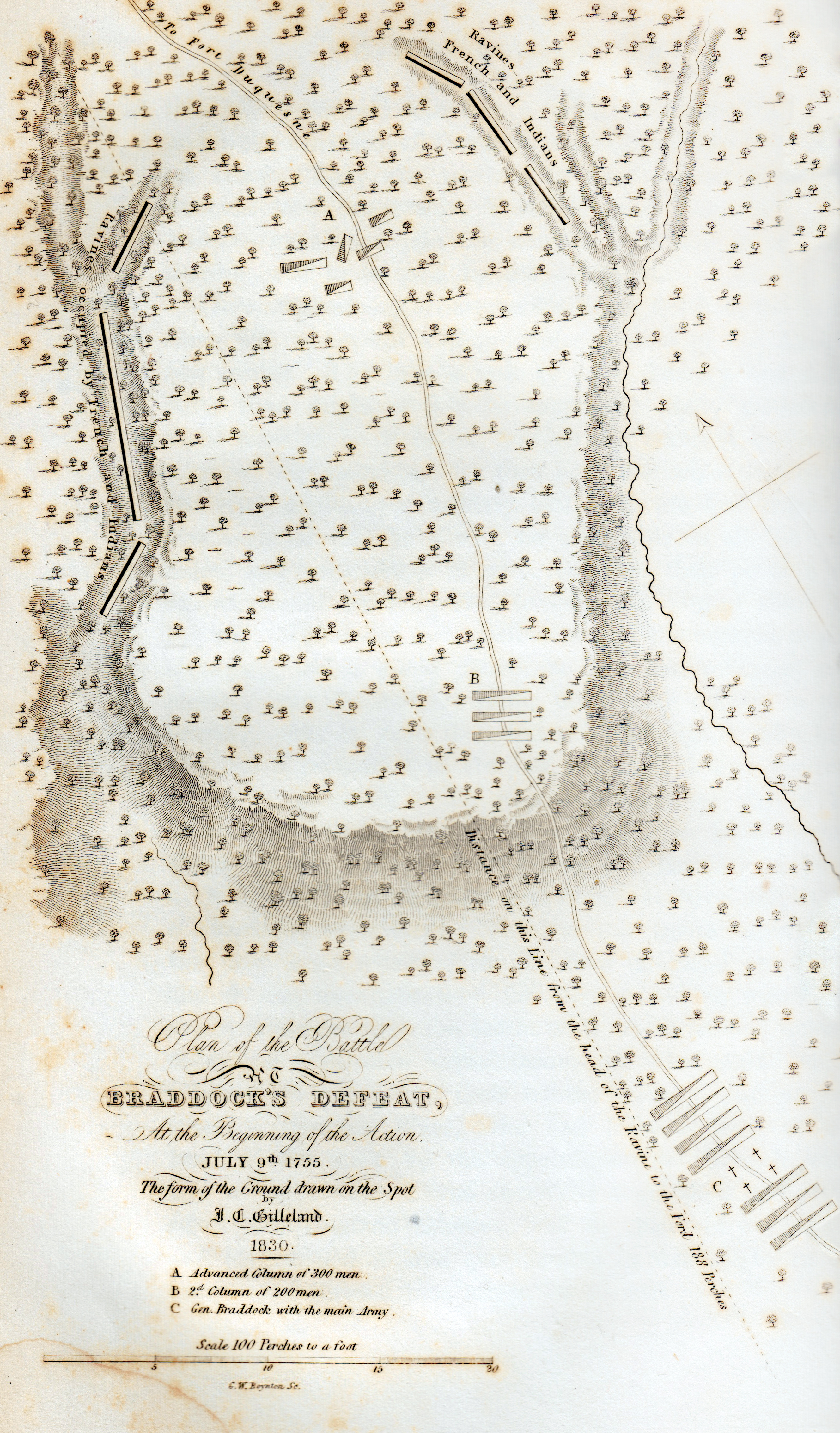 Plan of the Battle of Braddock's Defeat at the Beginning of the Action, July 9th, 1755. The form of the Ground drawn on the Spot by J.C. Gilleland (Steel engraving)